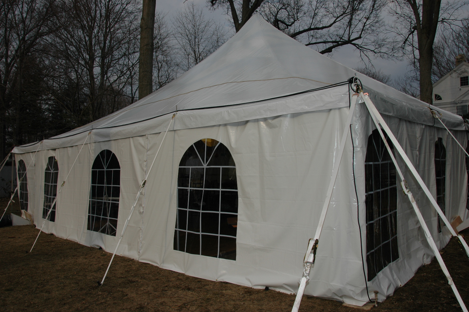 This shows typical cathedral sidewalls used by rental companies in cold weather